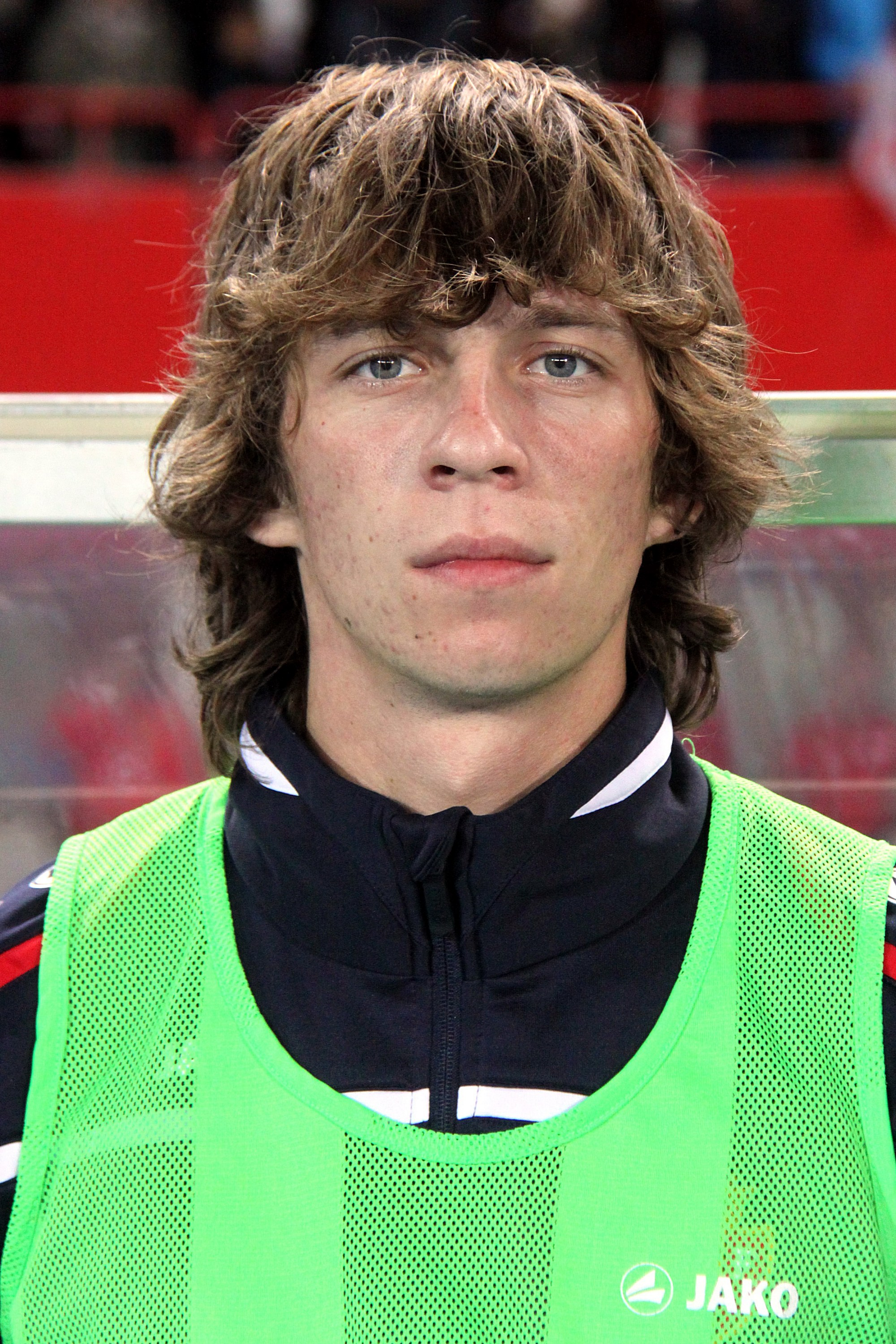 UEFA Euro 2016 qualifying, Group G – Austria national football team (red shirts) vs. Moldova national football team (blue shirts) on 2015-09-05 in Ernst-Happel-Stadion, Vienna: The photo shows Eugeniu Cociuc